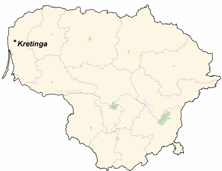 Kretinga on the map of Lithuania